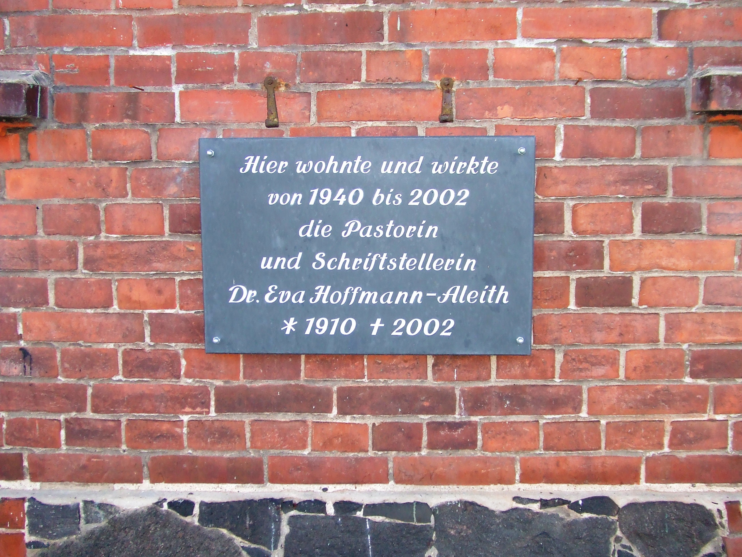 Plague for the memory of Eva Hoffmann-Aleith, a German clergywoman and writer, especially known for biographies about woman.